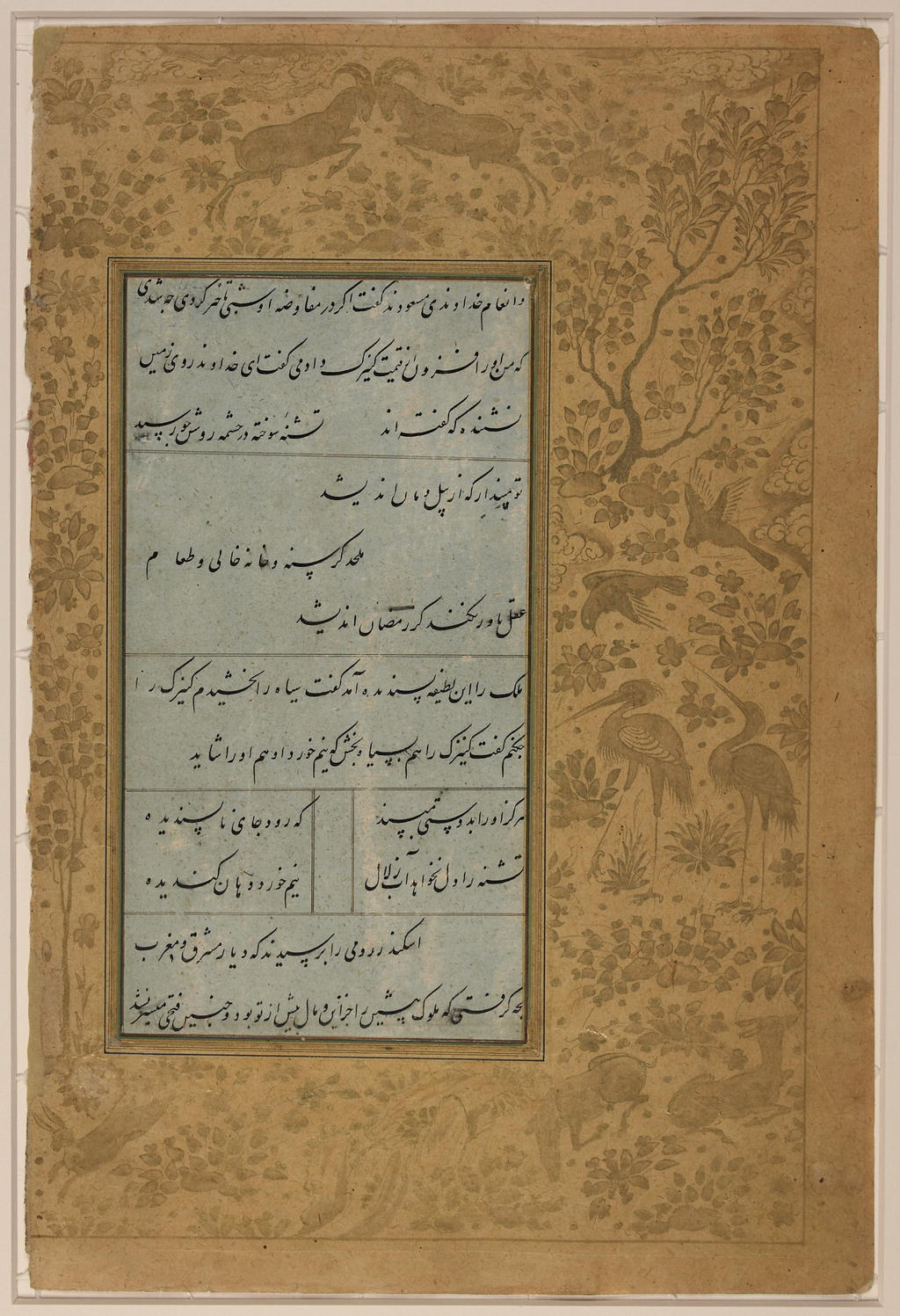 This fragment and its verso (1-85-154.98 V) include the text of Story 40 from Sa'di's (d. 691/1292) "Gulistan" (The Rose Garden). This story describes a king's giving away of a Chinese servant girl to his slave after she refused the king's drunken advances. Script: nasta'liq.